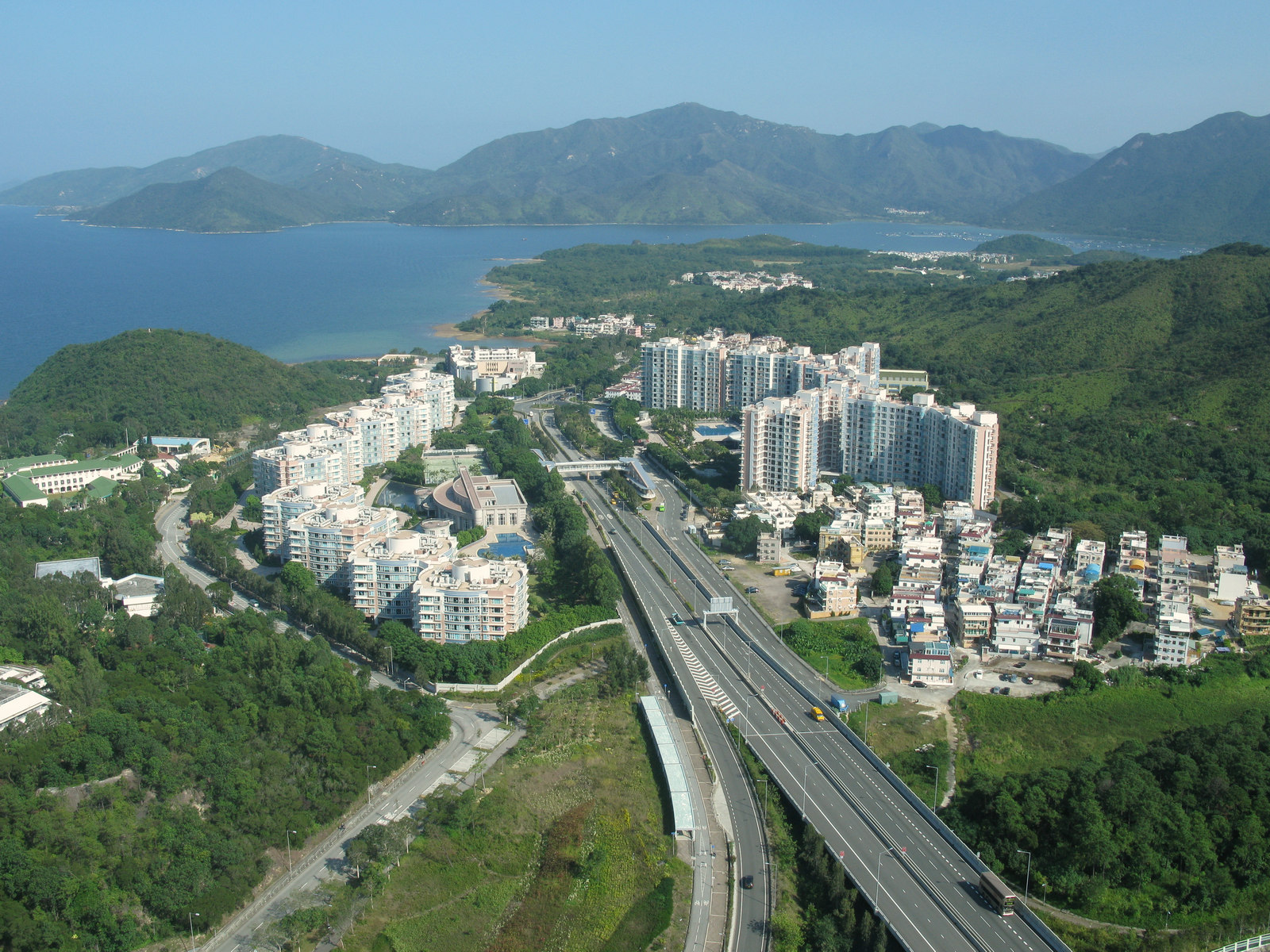 Symphony Bay, view from 65/F (43rd storey), Tower 6 of Lake Silver